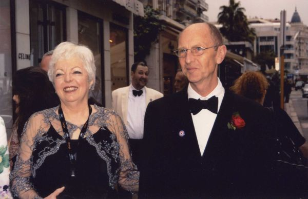 Photograph of Thelma Schoonmaker with Columba Powell (the son of Michael Powell) at Cannes.